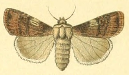 Image from Plate 6 of Die Gross-Schmetterlinge der Erde (The Macrolepidoptera of the World) Vol. 3